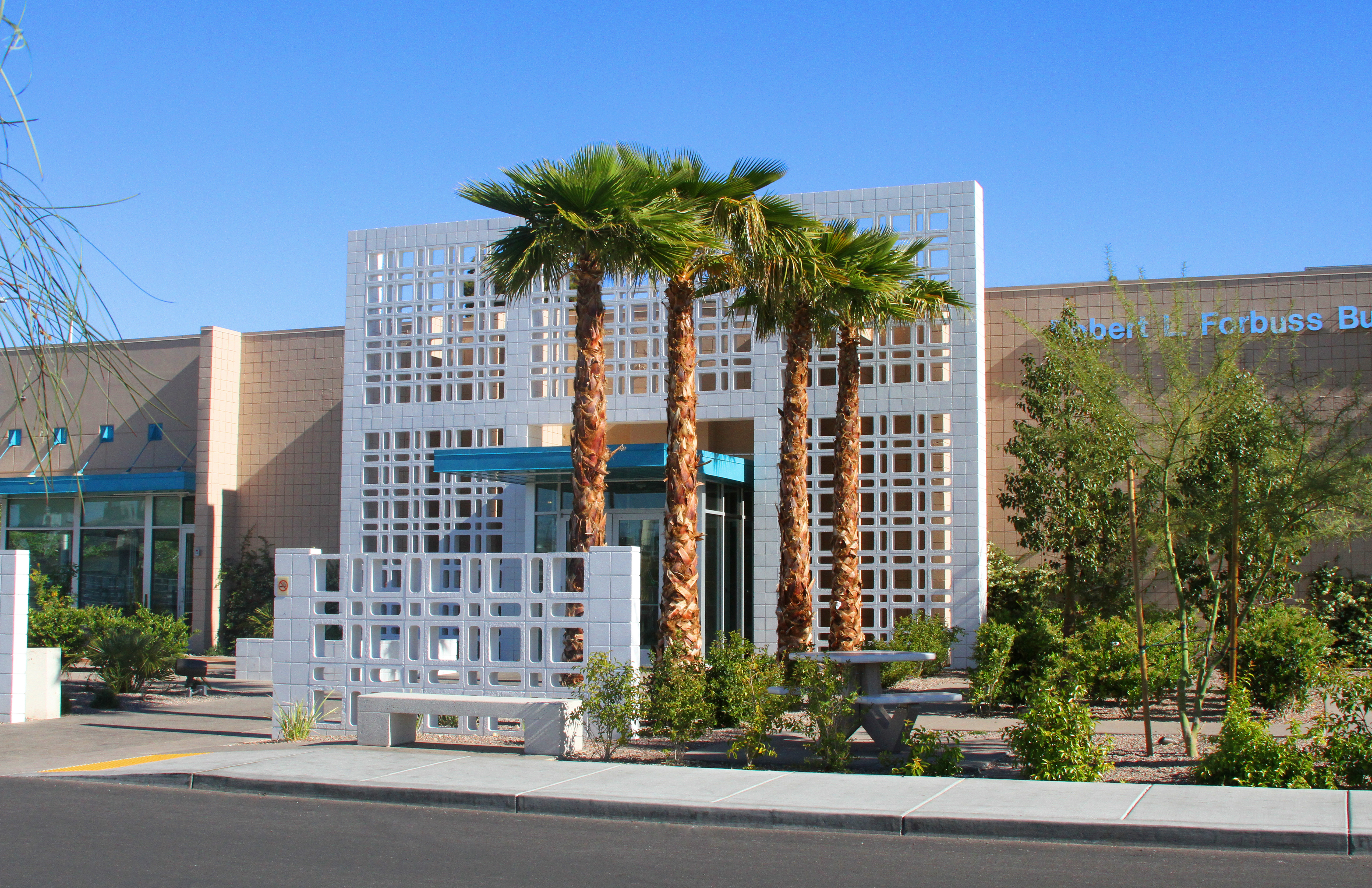 Front view of The Gay and Lesbian Community Center of Southern Nevada, located in Las Vegas.